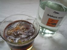 A chicken foot bought from a supermarket was submerged into a beaker of sulphuric (sulfuric) acid to demonstrate its corrosive property. The chicken foot was severely dehydrated and destroyed within few seconds, staining the solution black.